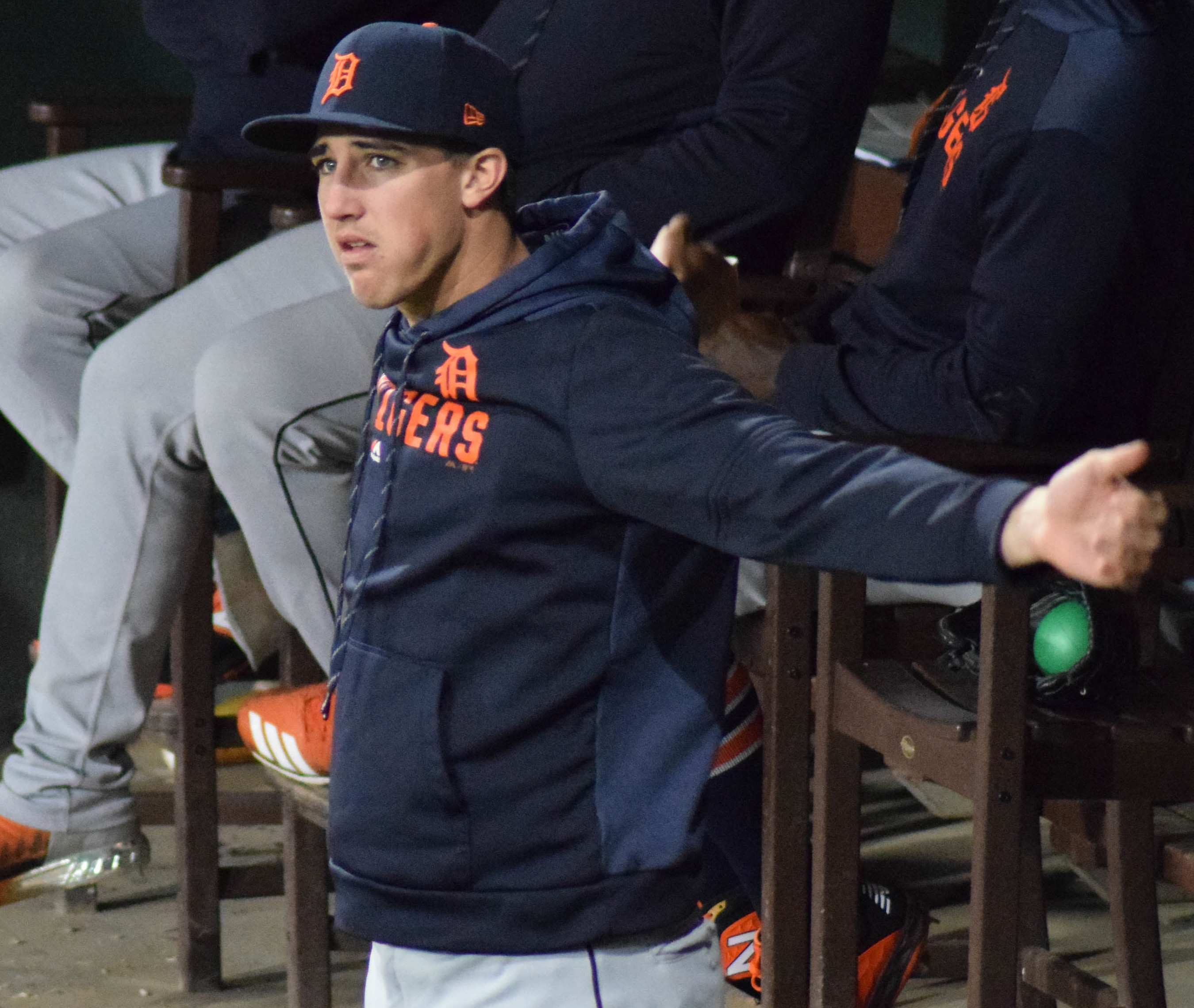 Zac Reininger of the Detroit Tigers loosens in the bullpen at Citizens Bank Park in Philadelphia in April 2019